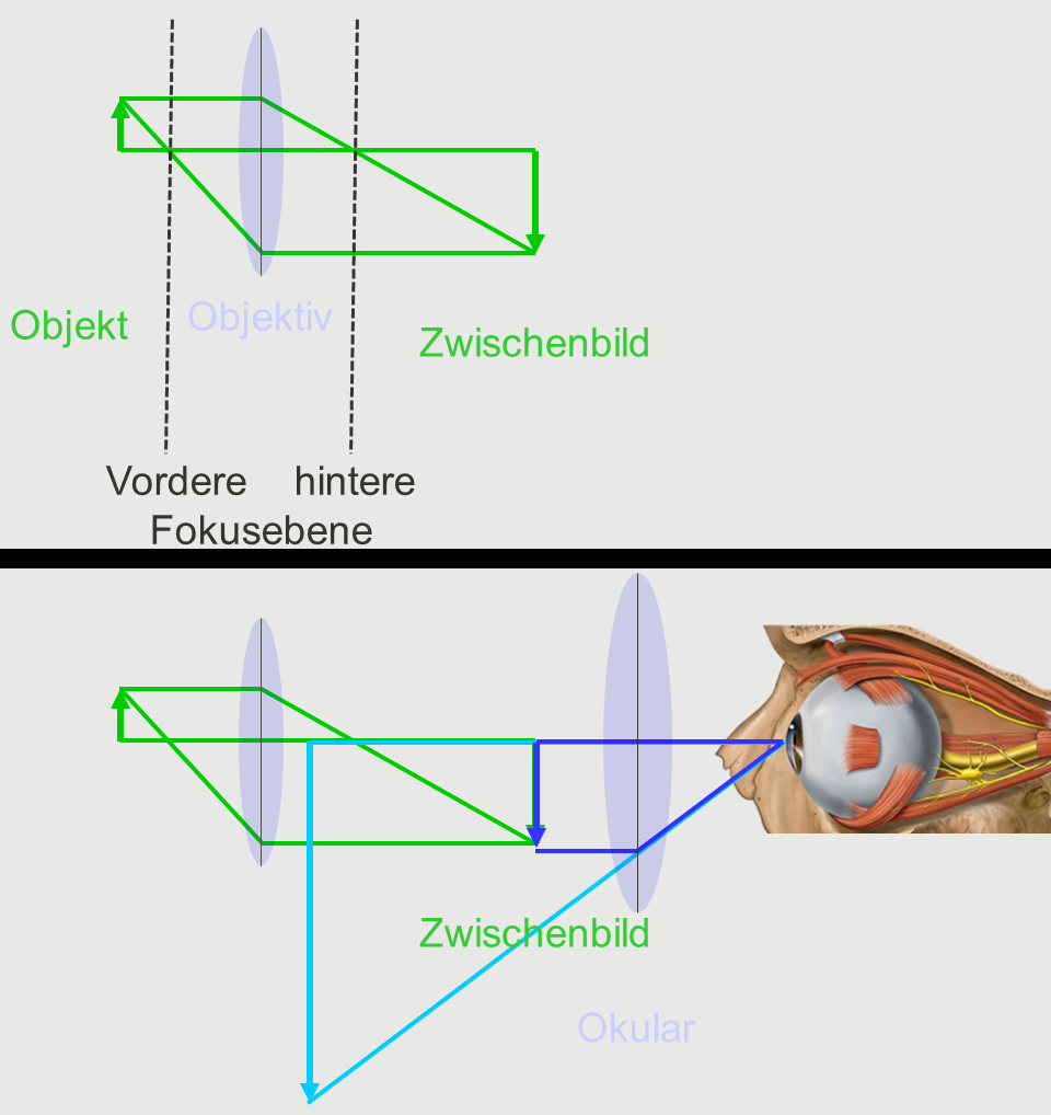 Principle of the two magnification steps of a compound light microscope in German